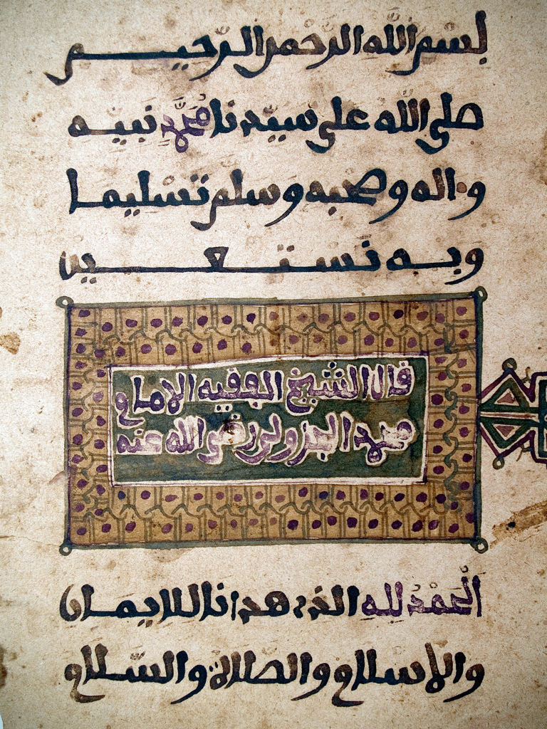 مثال عن الخطّ التمبكتي